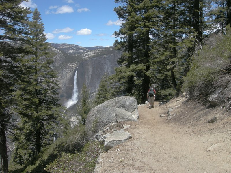 A section of the Four Mile Trail in Yosemite National Park Please credit Richard Ellis and for reuse.